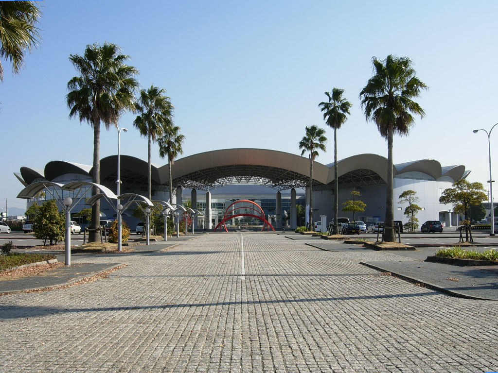 Life-port Toyohashi (ライフポートとよはし) in Toyohashi, Aichi, Japan.